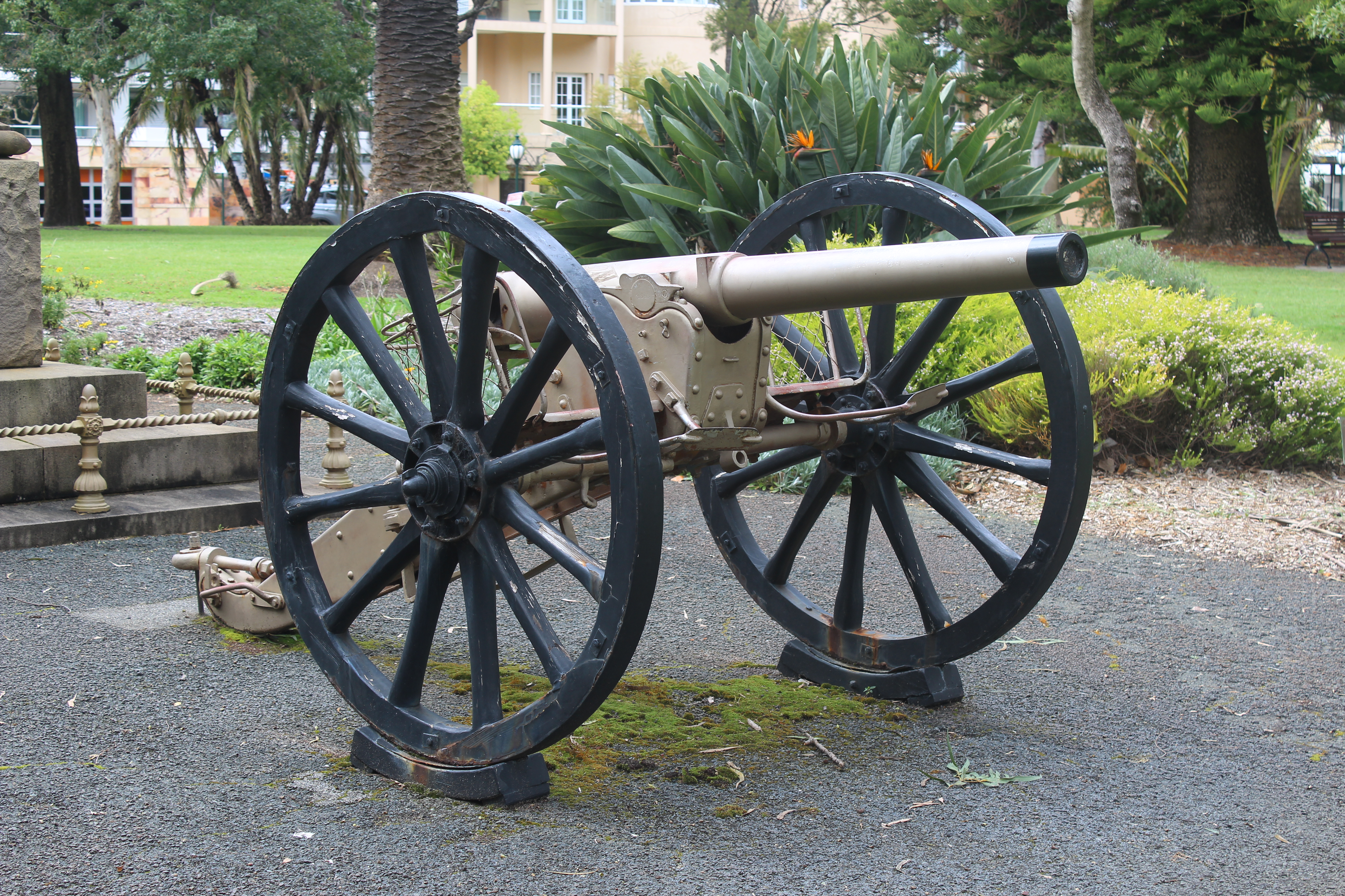 Krupp 75 mm BL type L/27 field gun[1], one of eight manufacturered in 1897 for the Oranje Vrijstaat Artillerie Corps (Orange Free State Artillery Corp) and captured by British forces at the Battle of Bothaville (6 November 1900).[2][3][4] Since 1906 it has been part of the Western Australian Memorial in Kings Park, Perth to those who fell during the Boer War. ↑ "BL" = Breech loading ↑ Boer War, Kings Park, Perth (2014-08-14). Retrieved on 19 September 2015. ↑ Engraving on breech ↑ Engraving on barrel